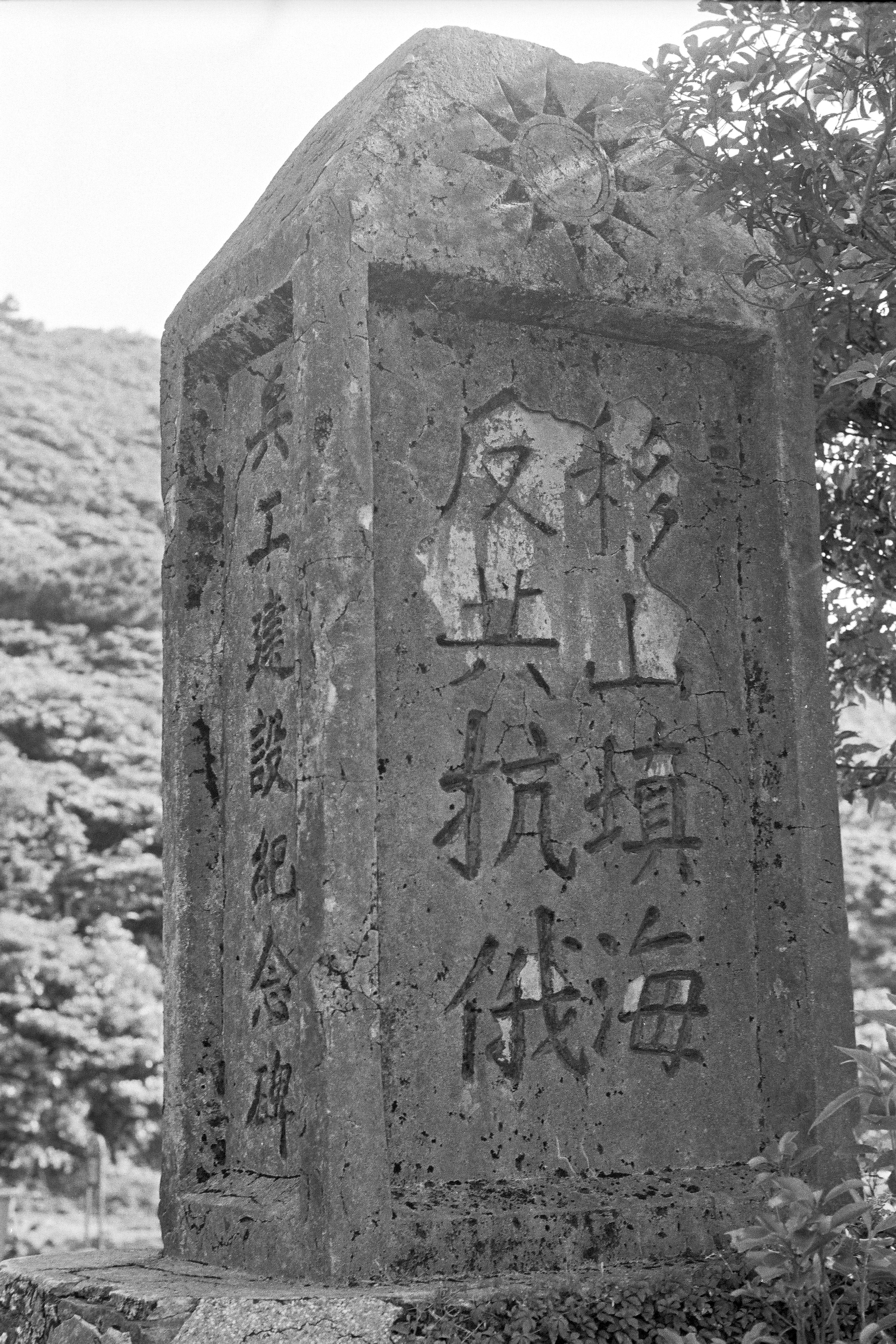 二子坪 - 兵工建設紀念碑 Erzihping Monument (front) 移山填海，反共抗俄 (Moving mountain and filling up the sea, opposing communism and fighting Soviet Russia.) - 1952